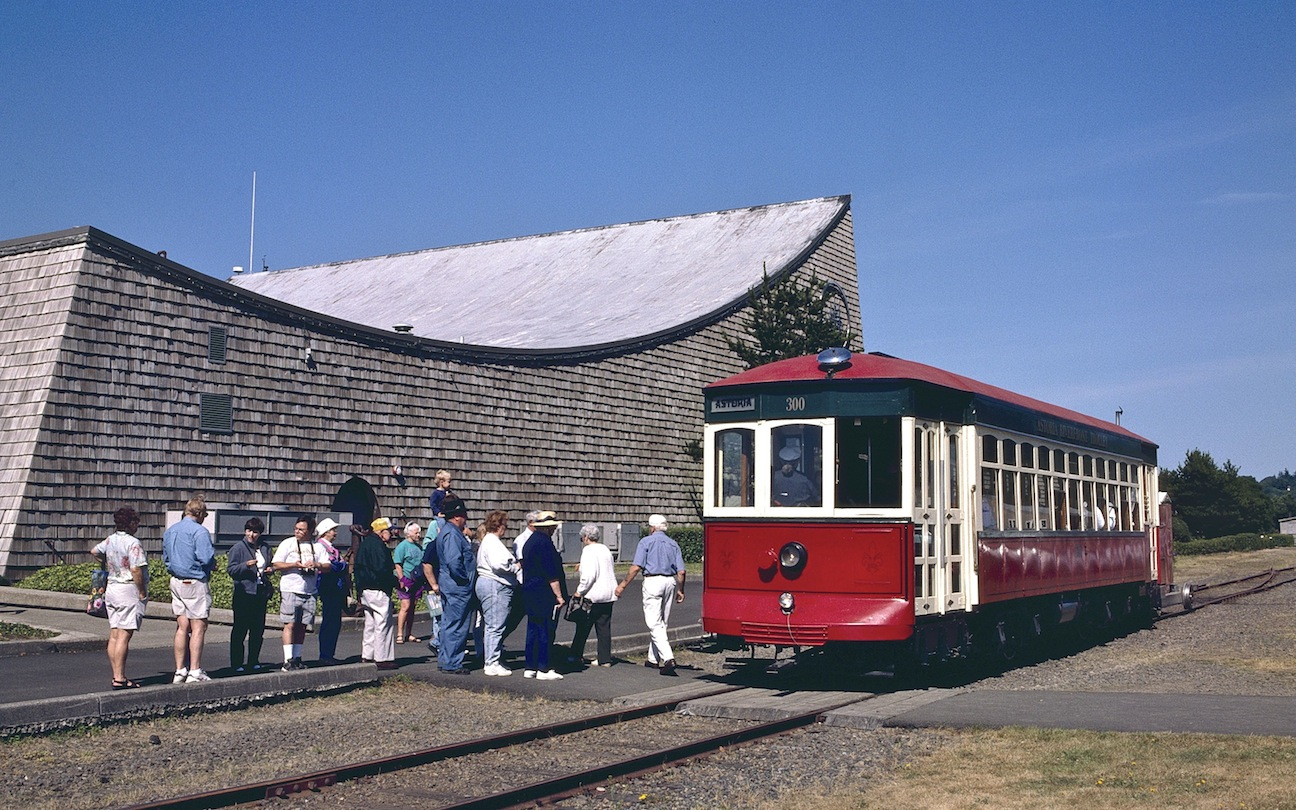 Astoria Riverfront Trolley car 300 stopped next to the Columbia River Maritime Museum (in Astoria, Oregon), with people waiting to board. The photo was taken in July 1999, only the second month of operation of the trolley line. The Maritime Museum was later remodeled, with large windows added on this side. Car 300 is an ex-San Antonio (Texas) streetcar built in 1913 by the American Car Company, by that time a subsidiary of the J. G. Brill Company.